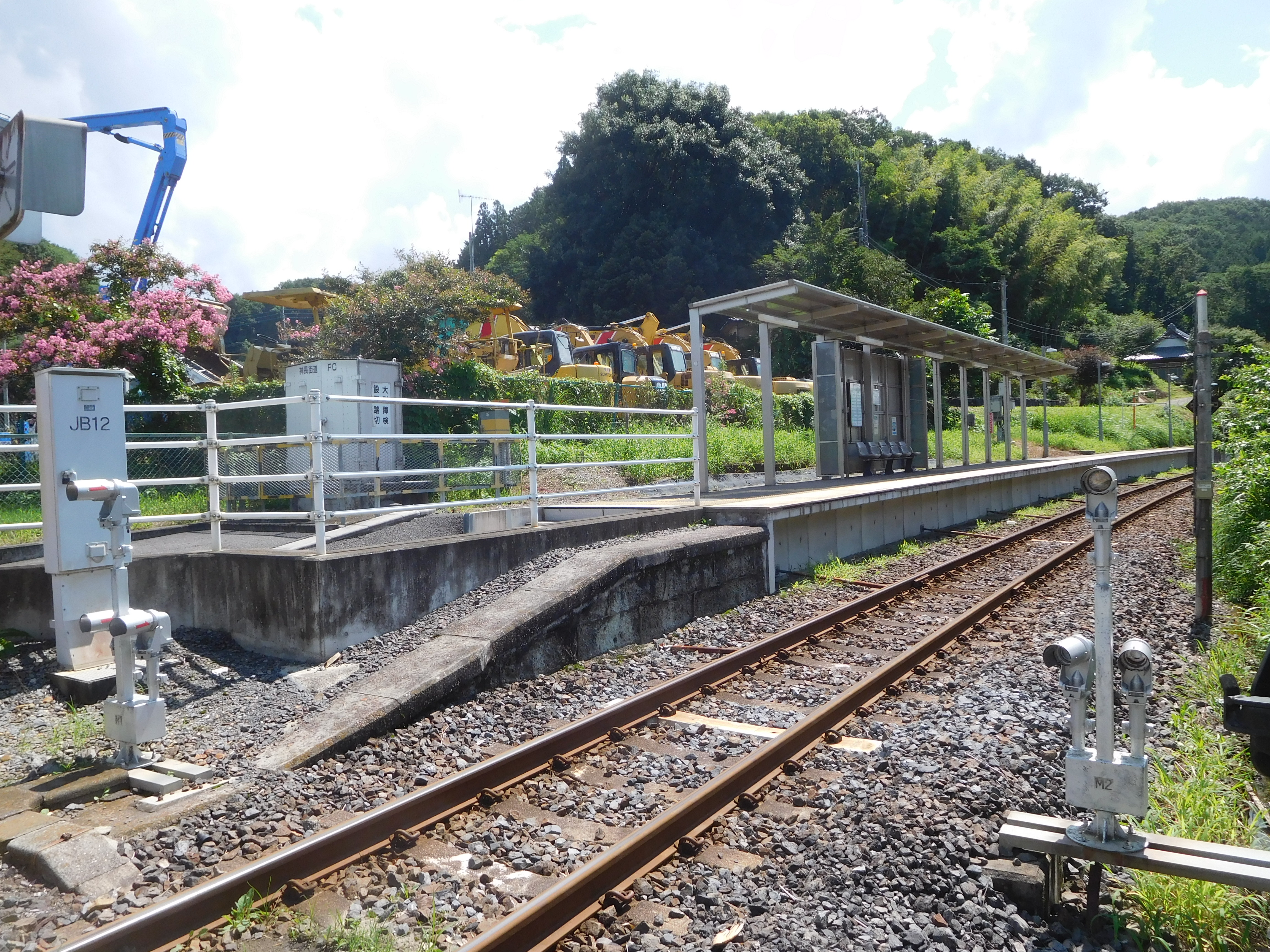 This is Taki station in Nasukarasuyama, Tochigi, Japan.